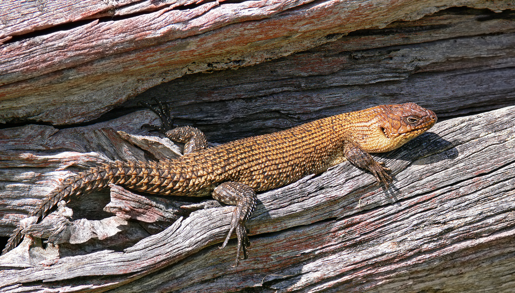 Cunningham's Skink (Egernia cunninghami) is a large skink species native to southeastern Australia